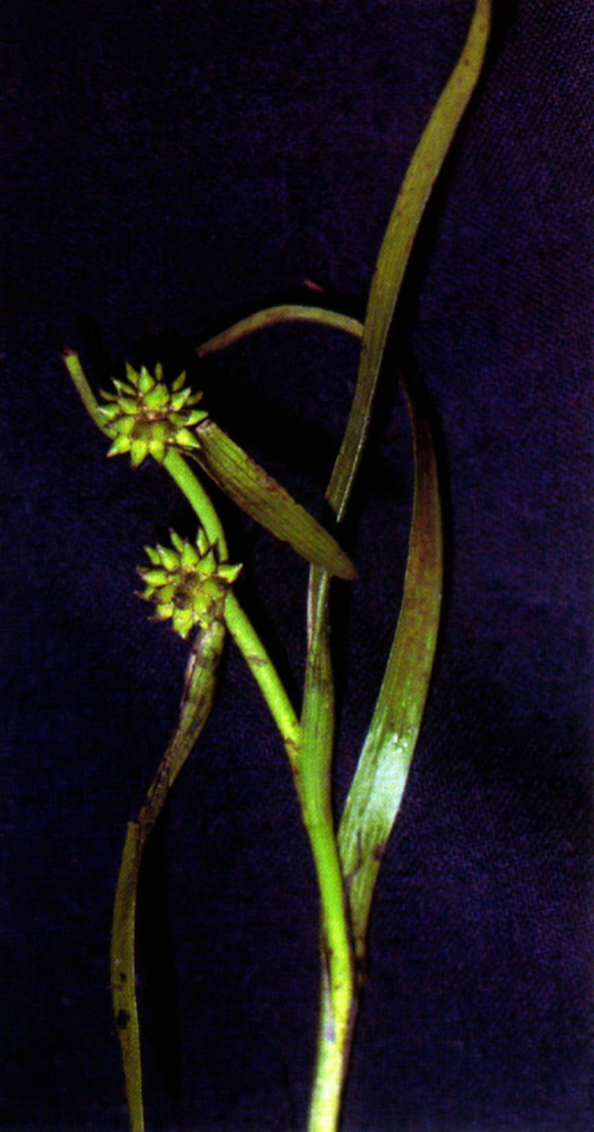 Sparganium natans L. - small bur-reed (as syn. Sparganium minimum Wallr.)